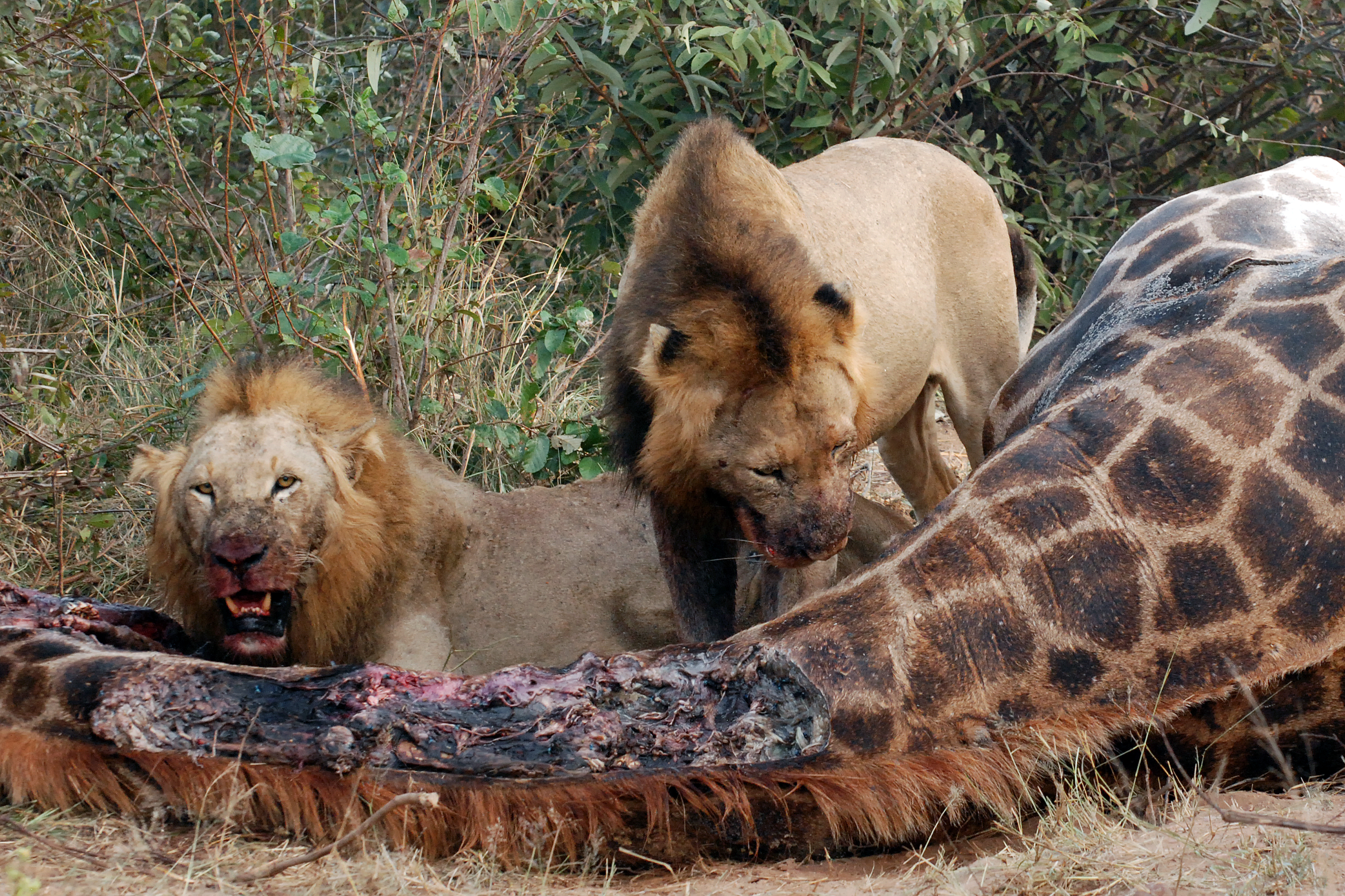 On the morning game drive / the morning after the Lions take down a Giraffe